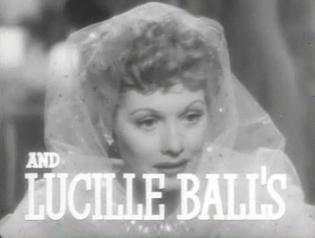 Screenshot of Lucille Ball from the trailer for the film The Big Street.